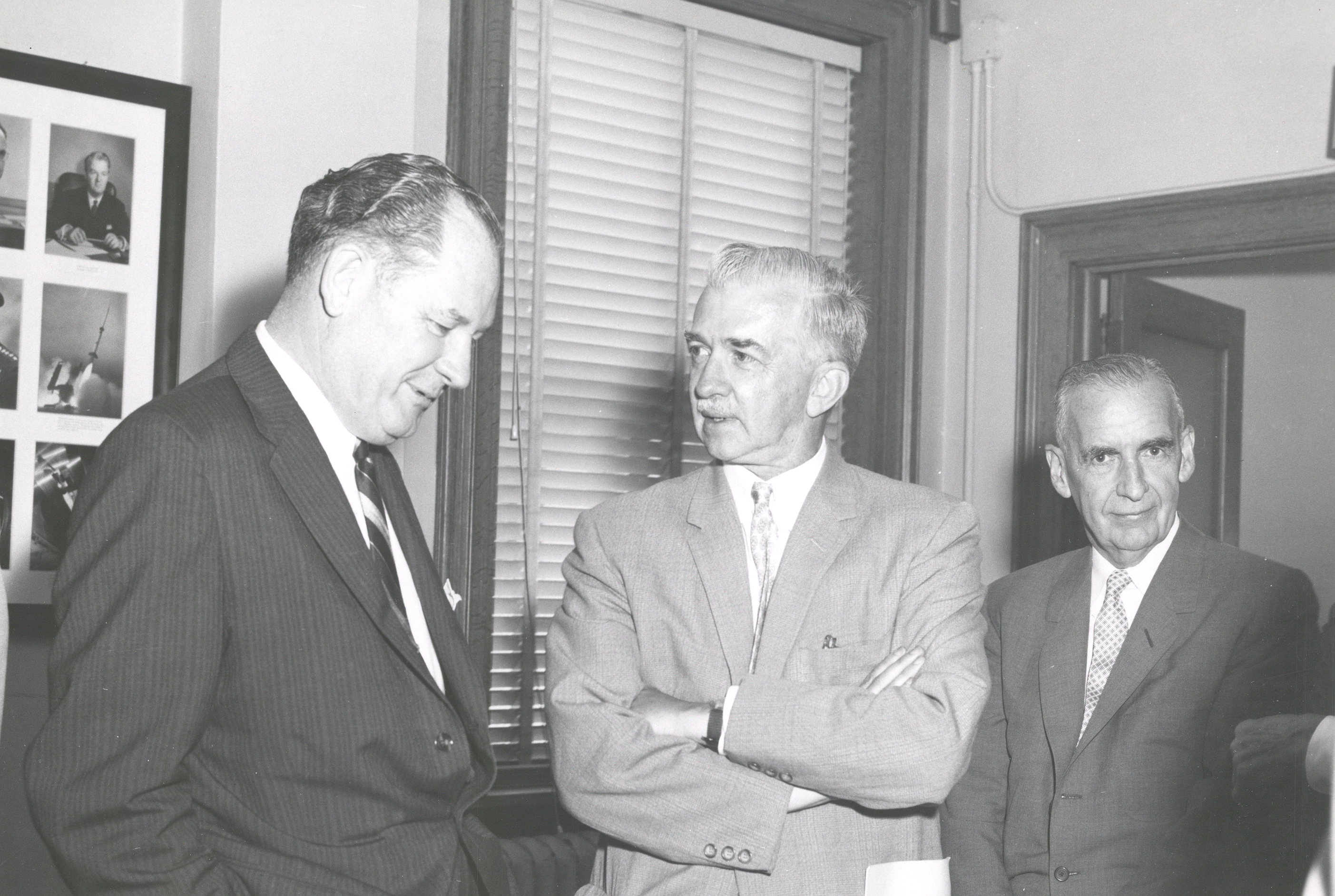 Final meeting of National Advisory Committee for Aeronautics, August 21, 1958. After the launch of the Soviet Union's Sputnik I satellite in October 1957, the United States realized that it needed a space program to keep up with the technological advancements made by the Soviets. On July 29, 1958, President Dwight D. Eisenhower signed Public Law 85-568 and established the National Aeronautics and Space Administration (NASA). T. Keith Glennan was sworn in as the first Administrator of NASA on August 19, 1958, and by October 1, the official effective date of the new agency, the National Advisory Committee for Aeronautics (NACA) was absorbed by NASA. Left to right: T. Keith Glennan, NASA Administrator; Mr. Preston R. Bassett, member of the NACA Committee on Aerodynamics; Mr. Charles J. McCarthy, Chairman of the Board, Chance Vought Aircraft, Inc.